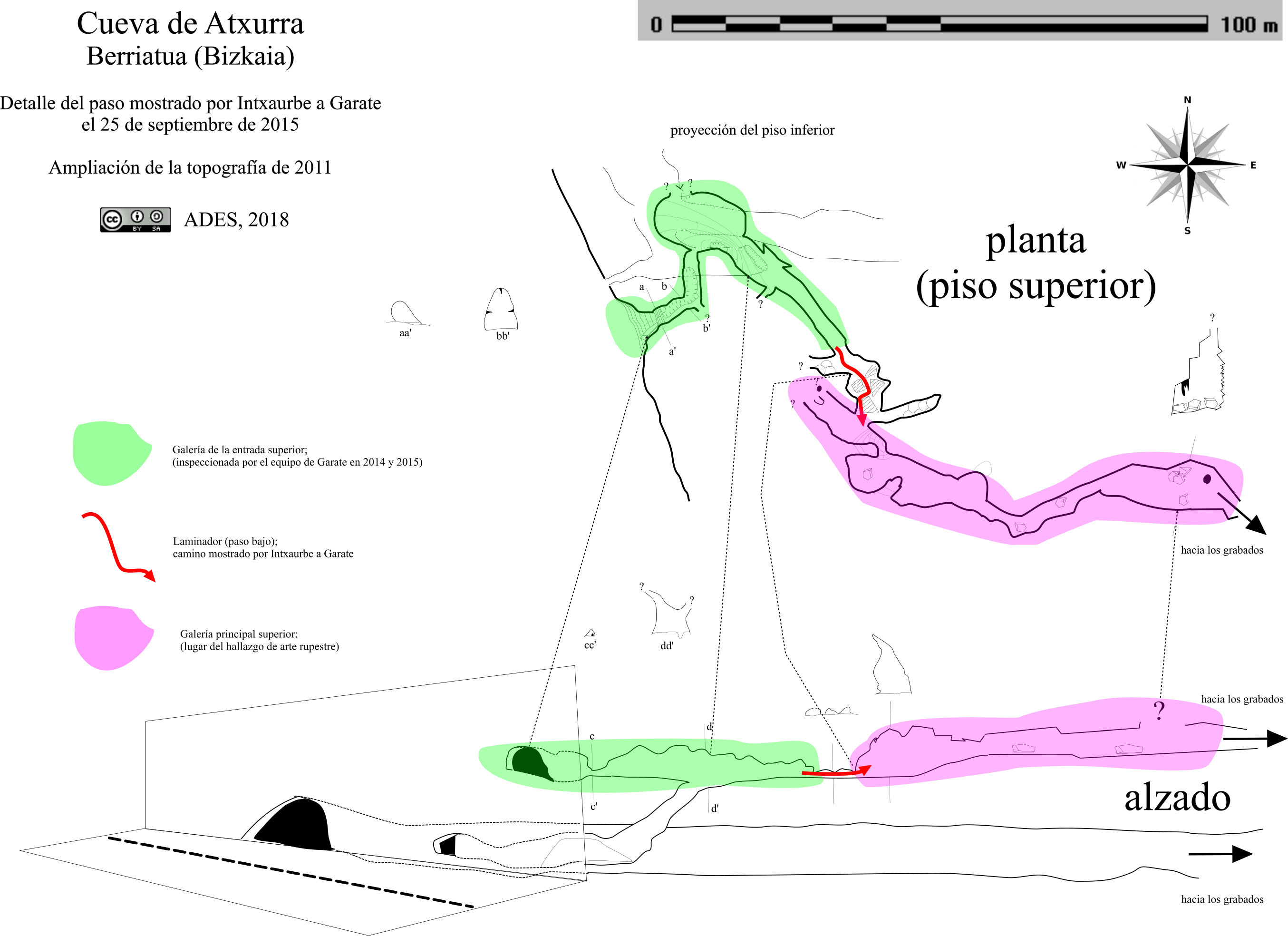 Path followed by Intxaurbe and Garate the 25th of september of 2015 (modified from 2011 topography)